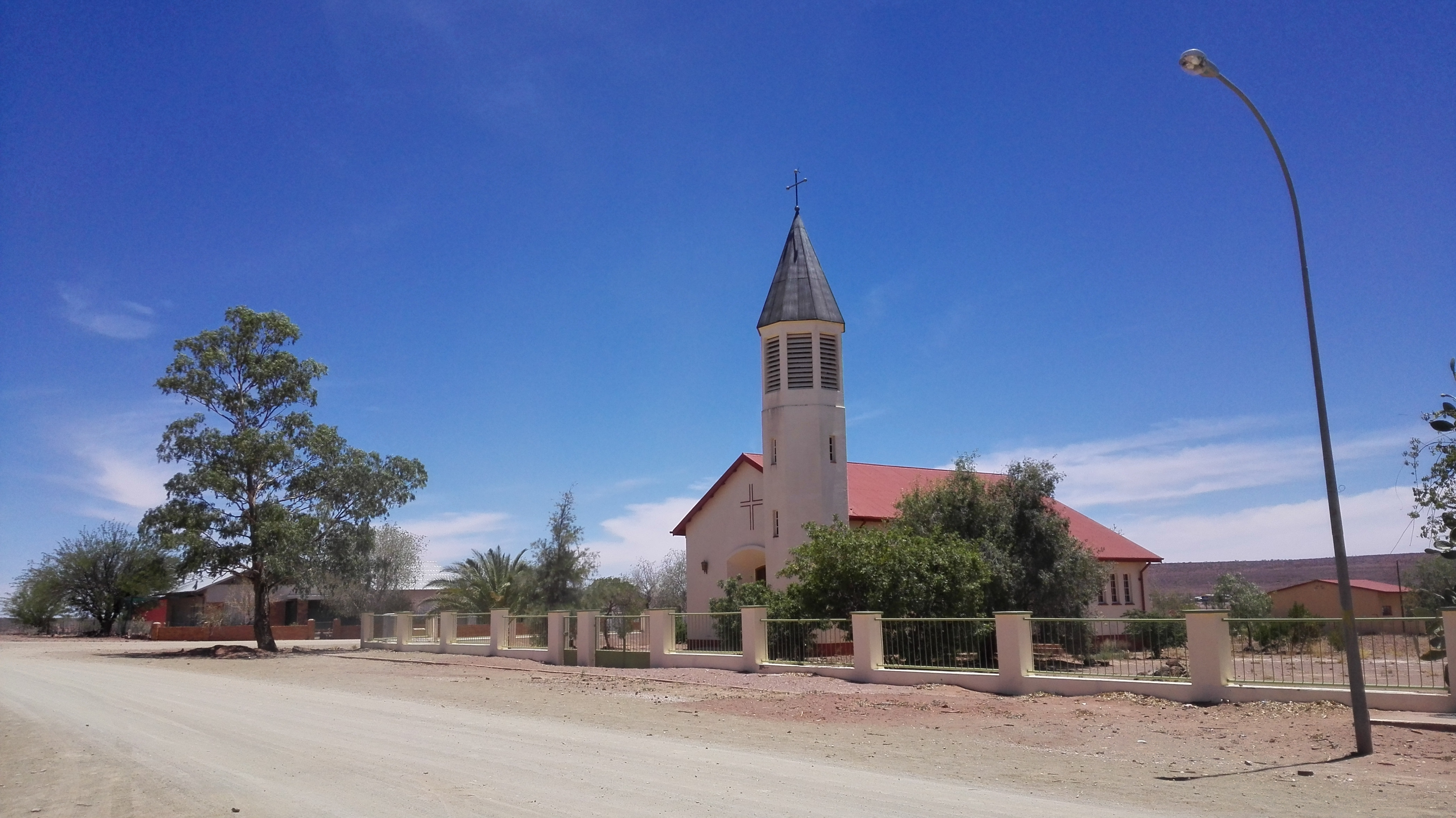 German Evangelical-Lutheran Church in Maltahöhe, Namibia